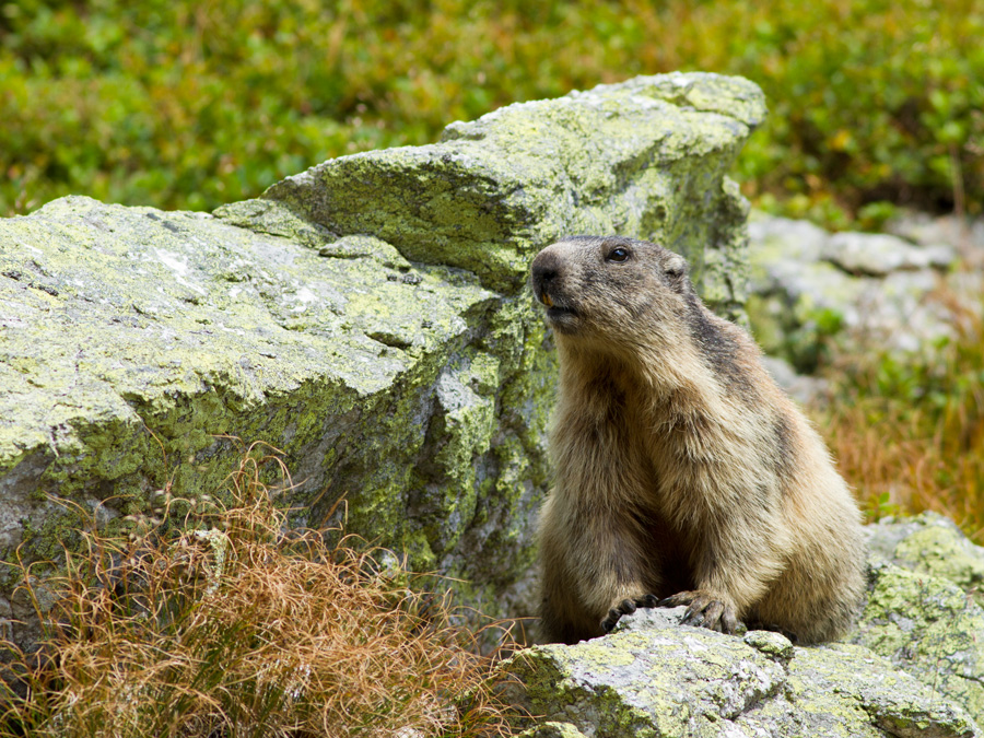 M. marmota latirostris in Račkov Zadok, Western Part of Tatra Mountains, Slovakia